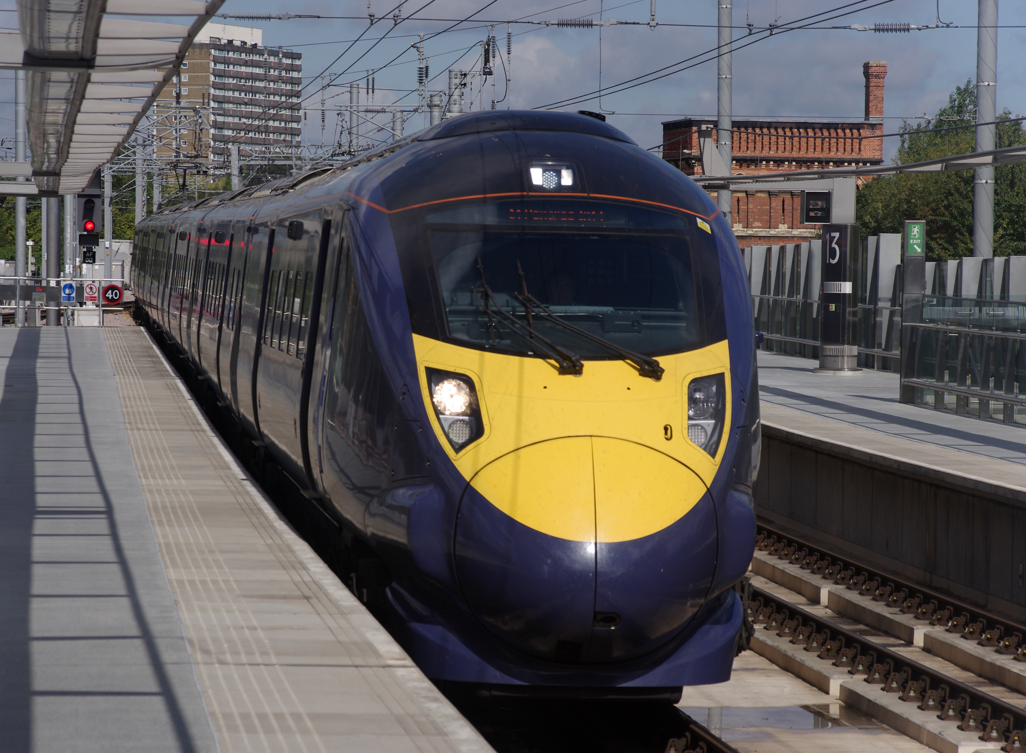 Southeastern Class 395 "Javelin" High Speed EMU 395001 arrives at London St Pancras International railway station.